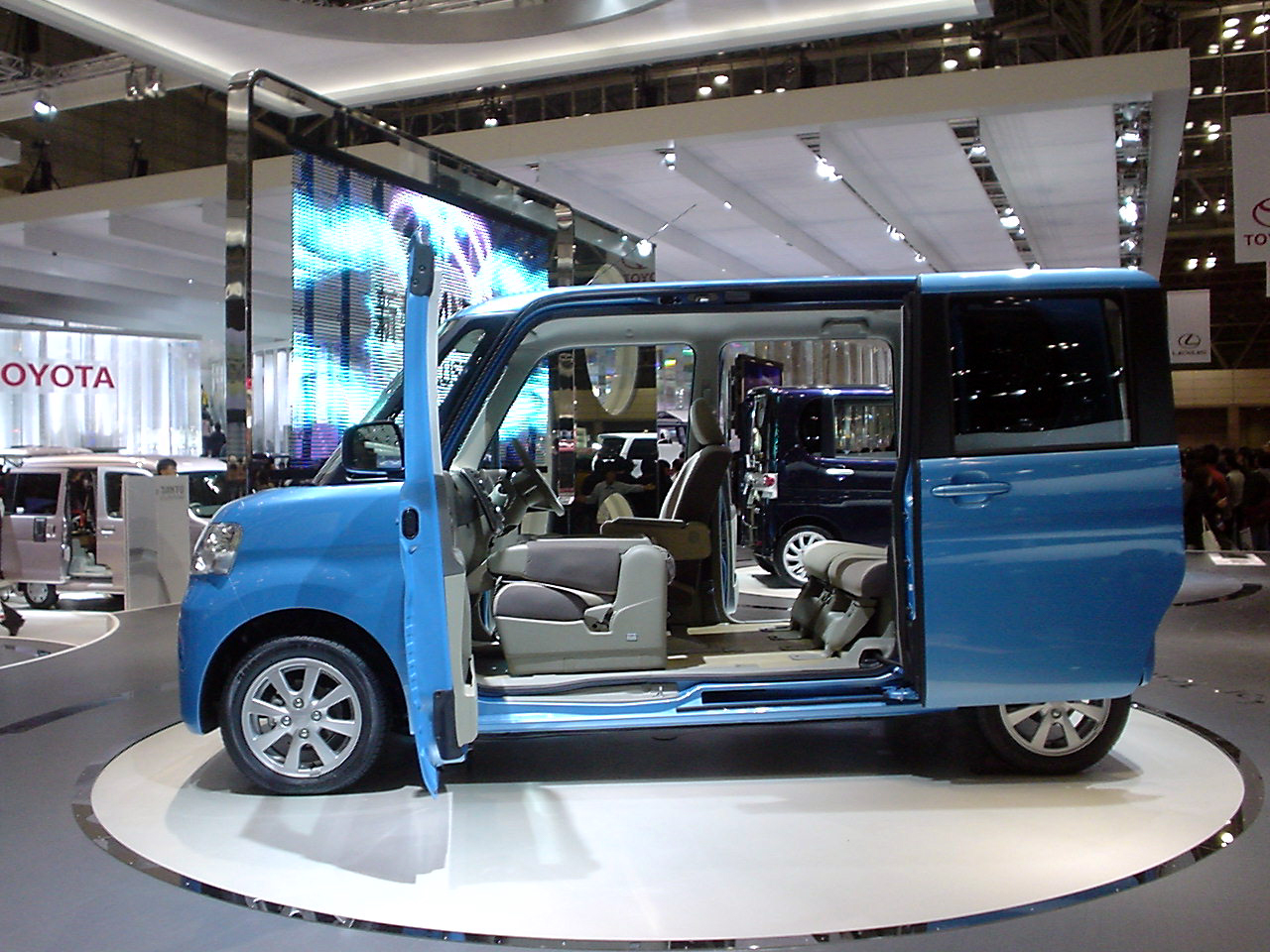 Daihatsu Tanto in Tokyo Motorshow 2007